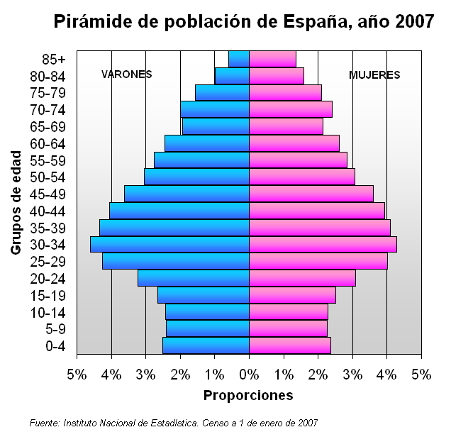 Population pyramid of Spain in 2007